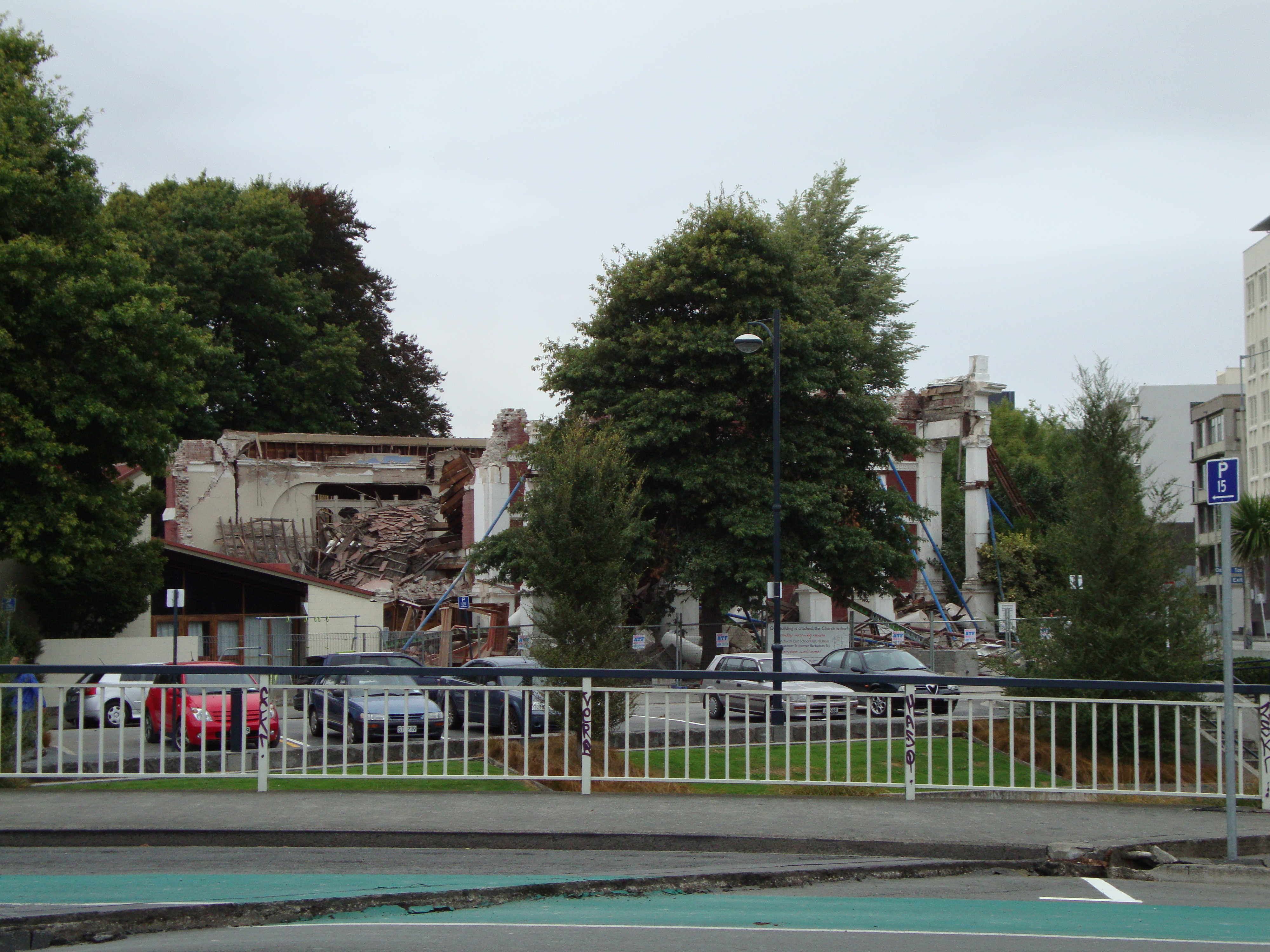 Oxford Tce Baptist Church destroyed in 2011 Canterbury earthquake. Heavily propped up since the September 2010.